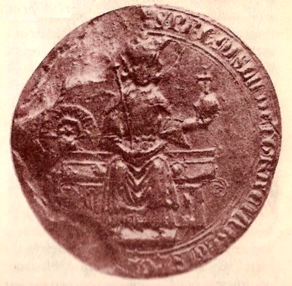 Royal seal of King Przemysł II of Poland (1295) (Zuber)